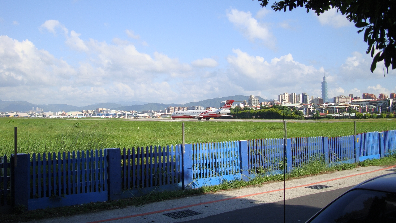 FEA MD-83 IN RCSS 10 RUNWAY.